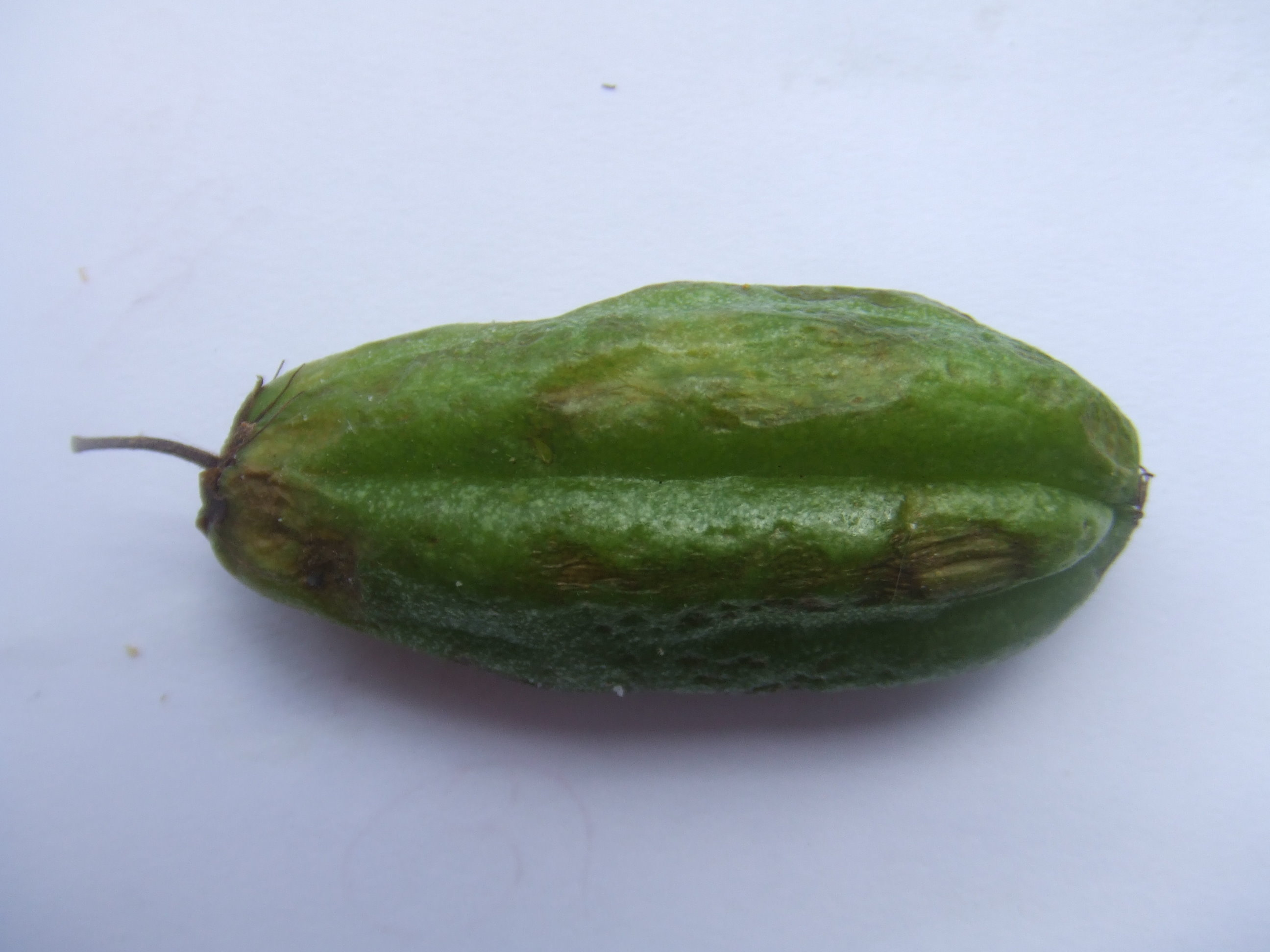 Averrhoa bilimbi, bought at the Binnenrotte market in Rotterdam, The Netherlands